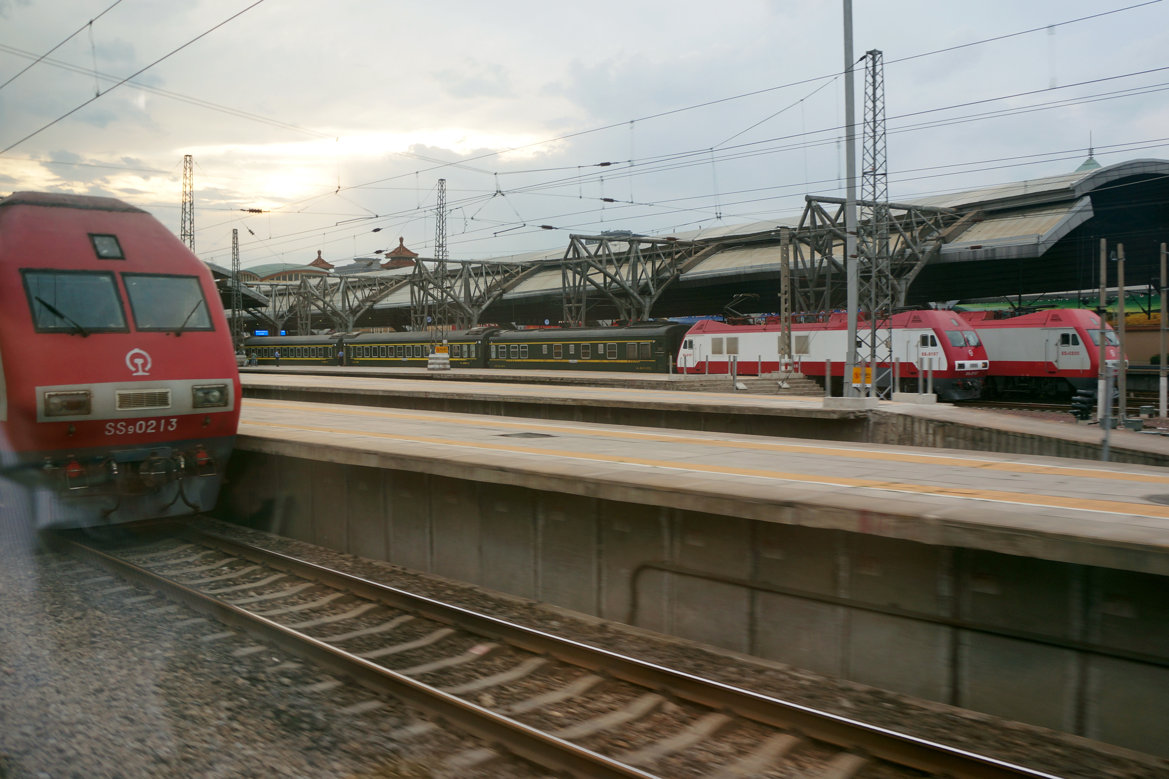 201606 T109,215,K681 with SS9G locomotives (Plus one for Z9) waits for departure at Beijing Station